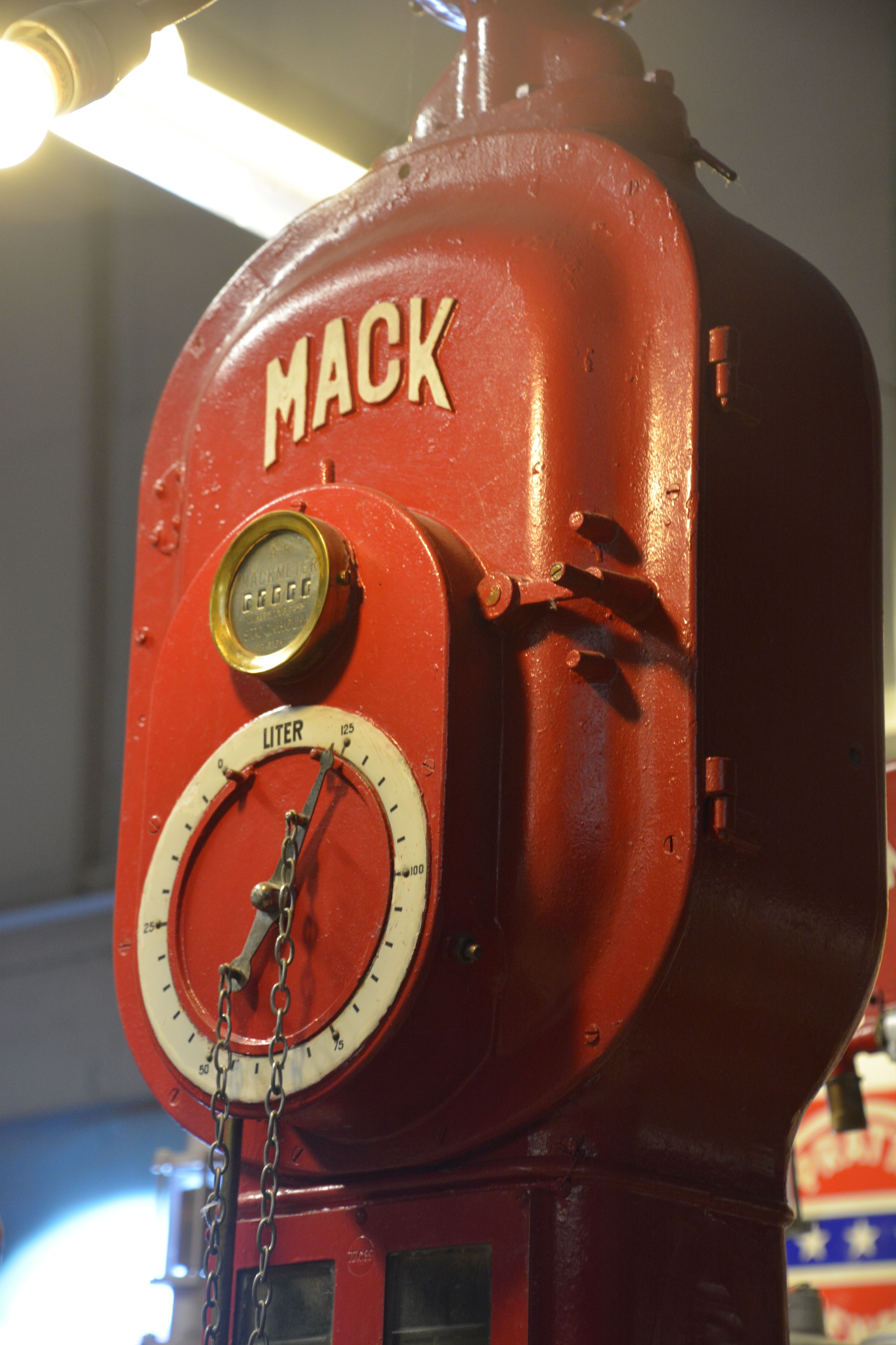 MACK petrol pump from MACK Petroleum AB, Stockholm, Sweden. Photo taken at Johanna-museet at Skurup, Sweden.